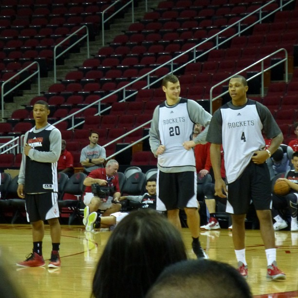 Houston Rockets